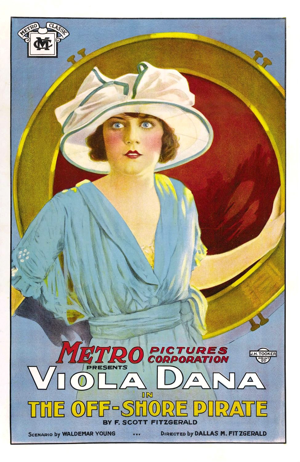 Poster for the film The Off-Shore Pirate (1921) with Viola Dana.